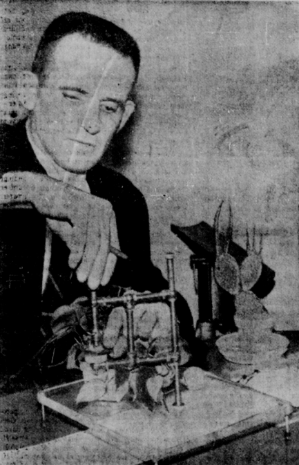 Cleve Backster using a lie detector on a household philodendron.